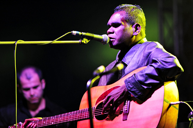 West Coast Blues N Roots Festival 2011